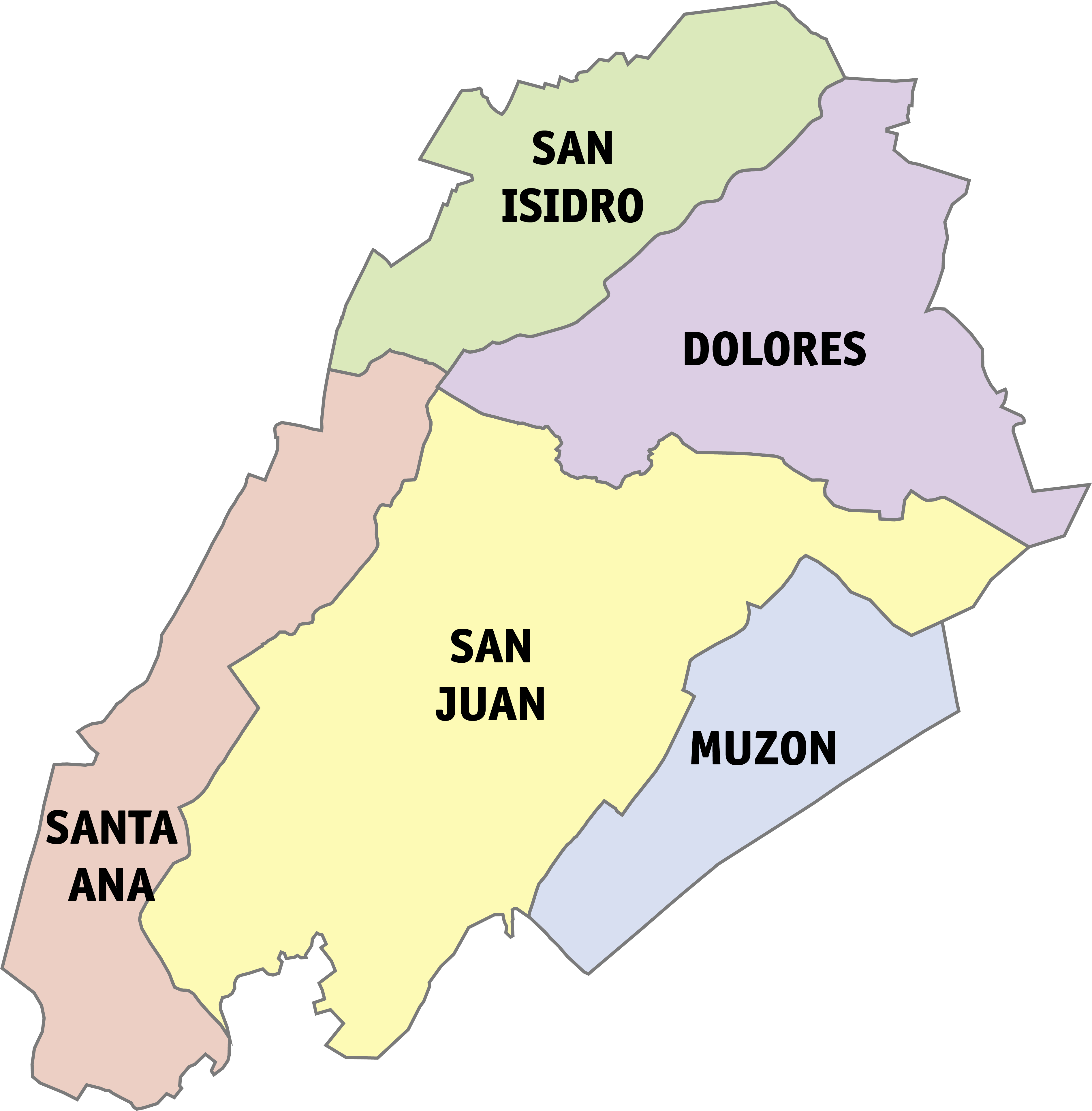 Political map of Taytay, Rizal